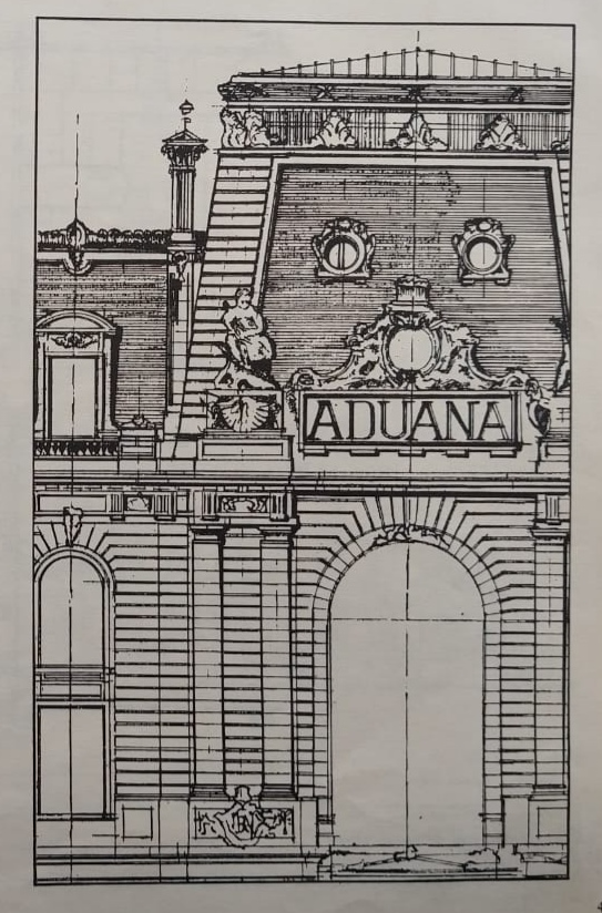 Imagen Antigua de la fachada realizada por los arquitectos originales